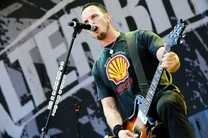 Mark Tremonti @ Soundwave Festival 2012